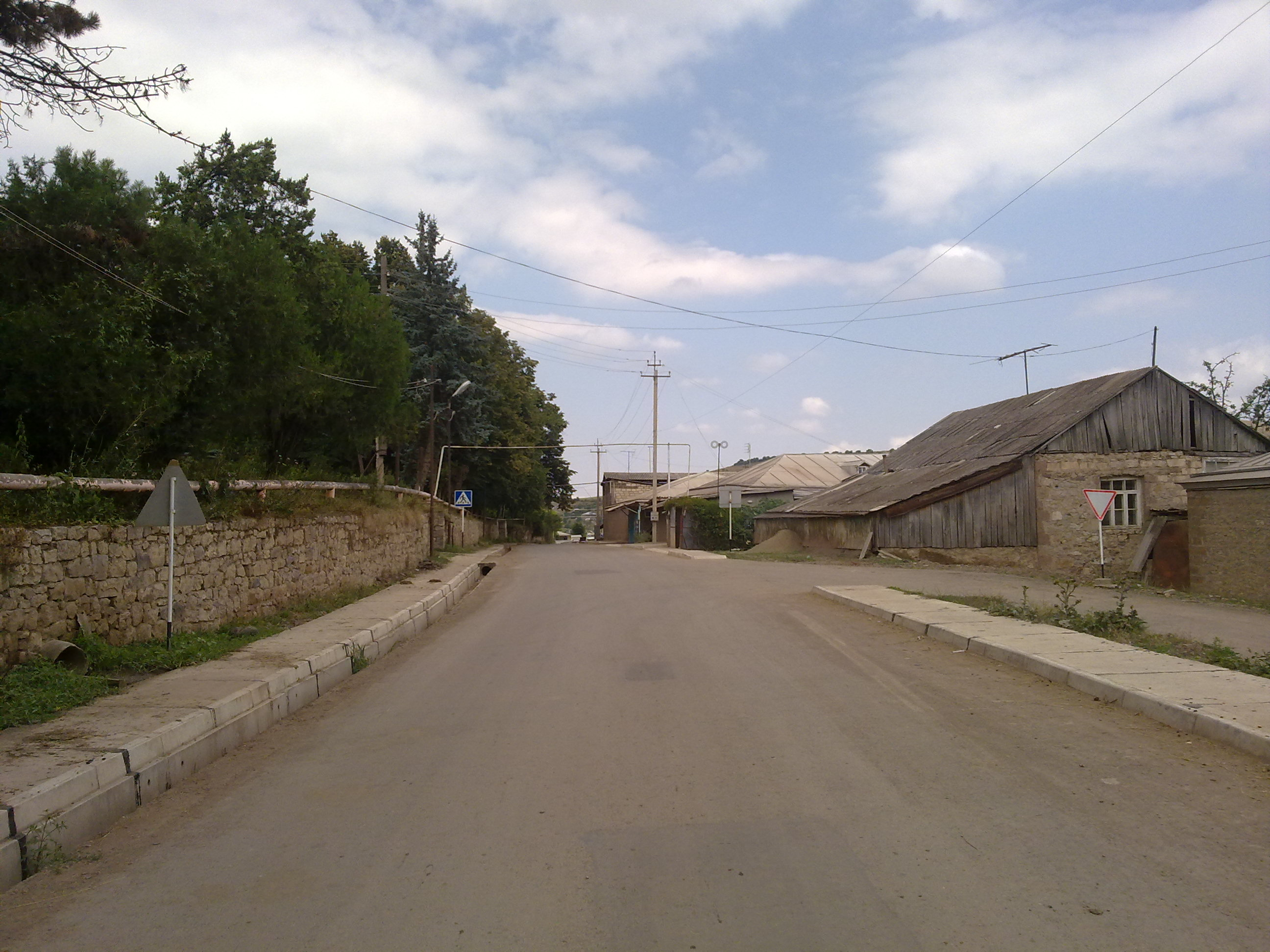 Central street in Norashen village of Tavush province of Armeina.